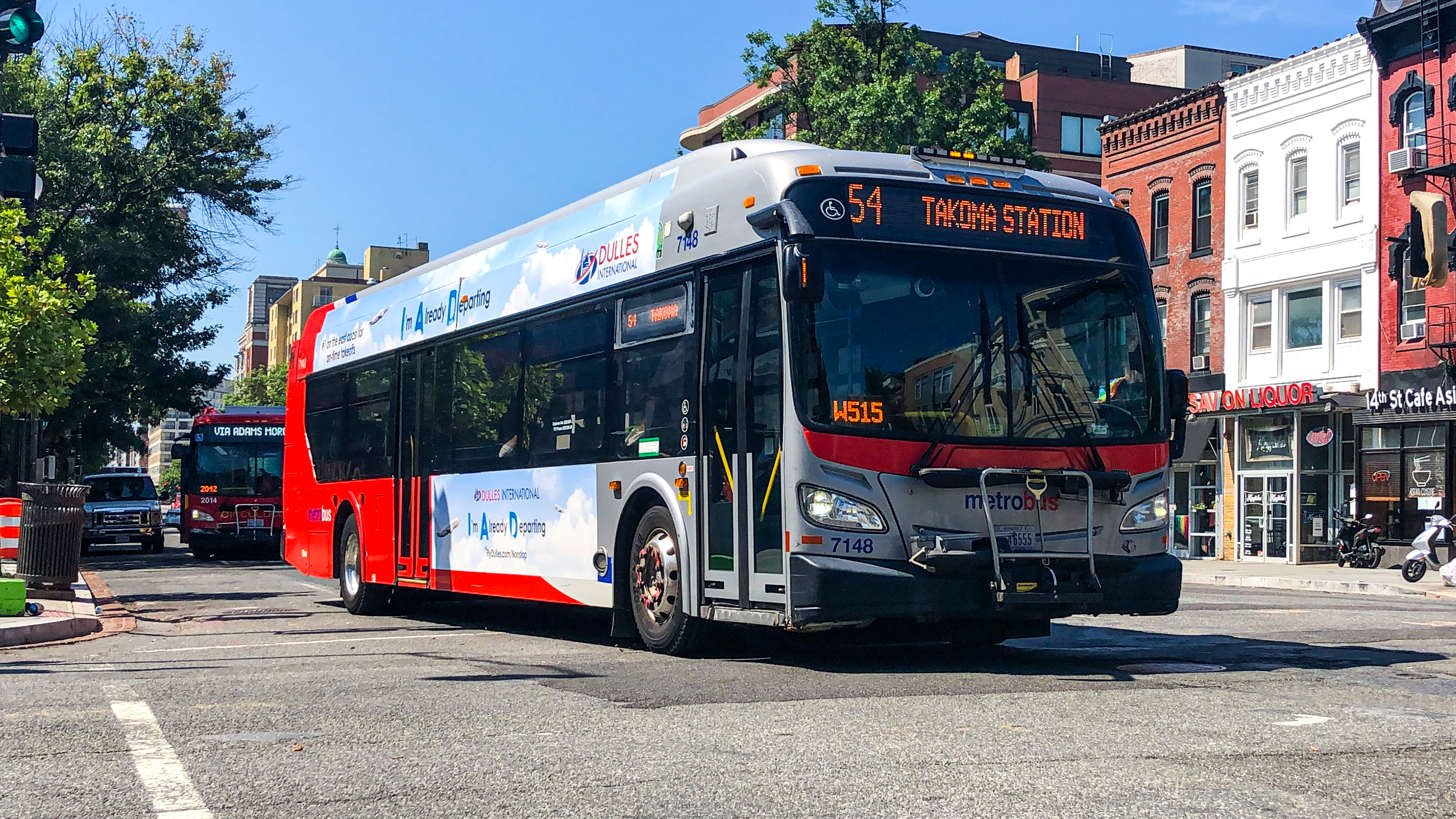 WMATA New Flyer XDE40 7148 on Route 54 along 14th Street